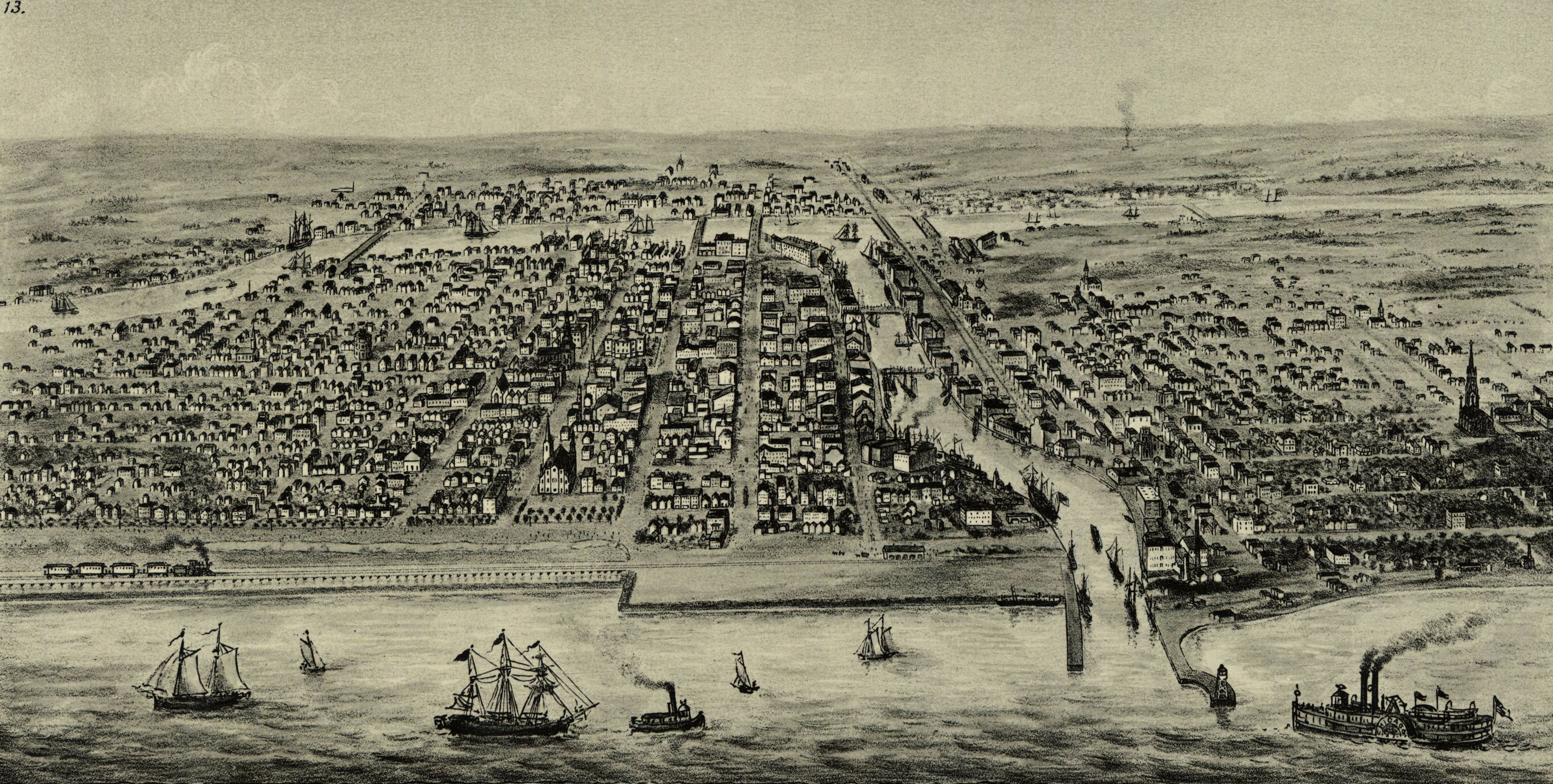 Chicago in 1853, population 60,662